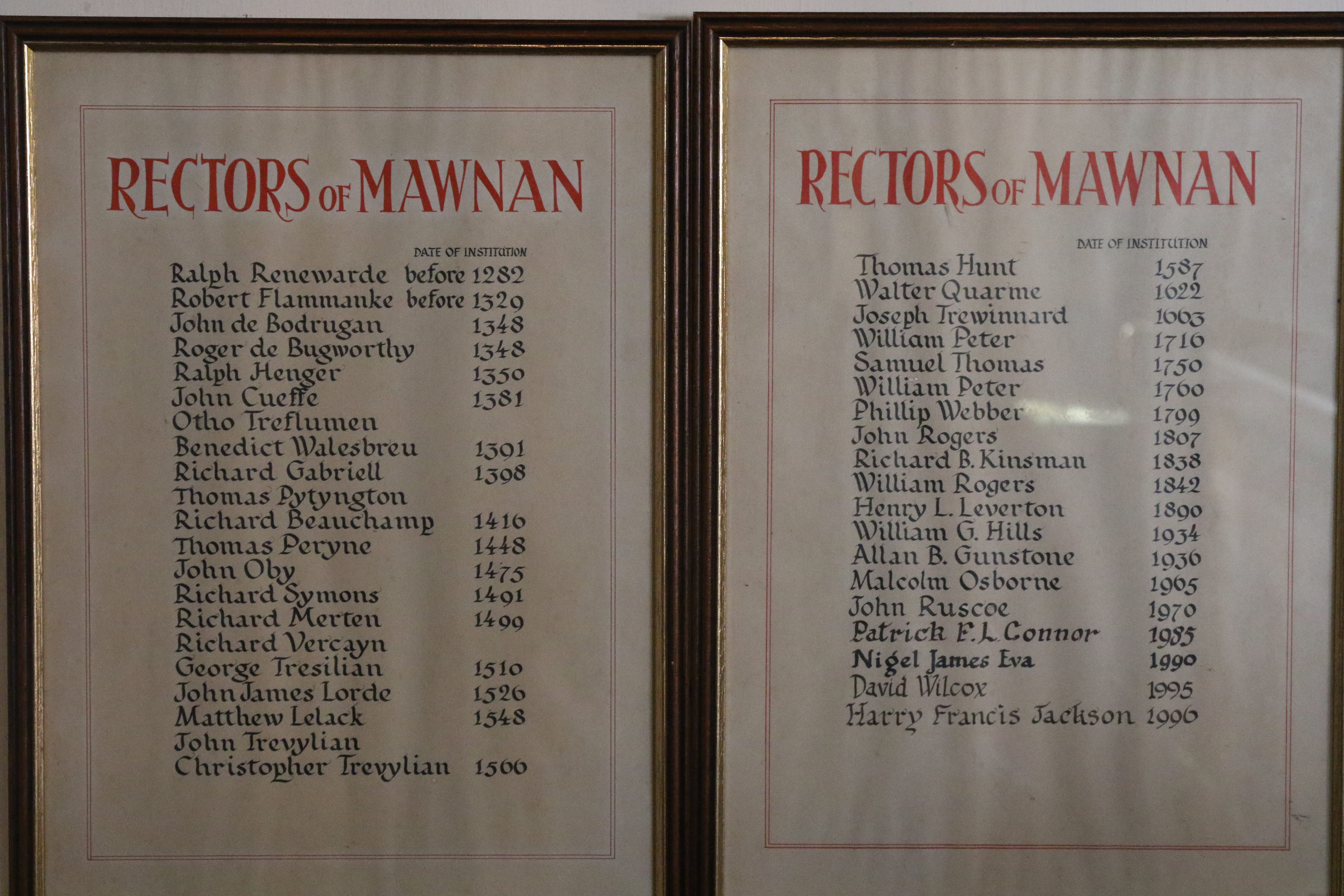 In St Mawnan and St Stephen's church, Mawnan